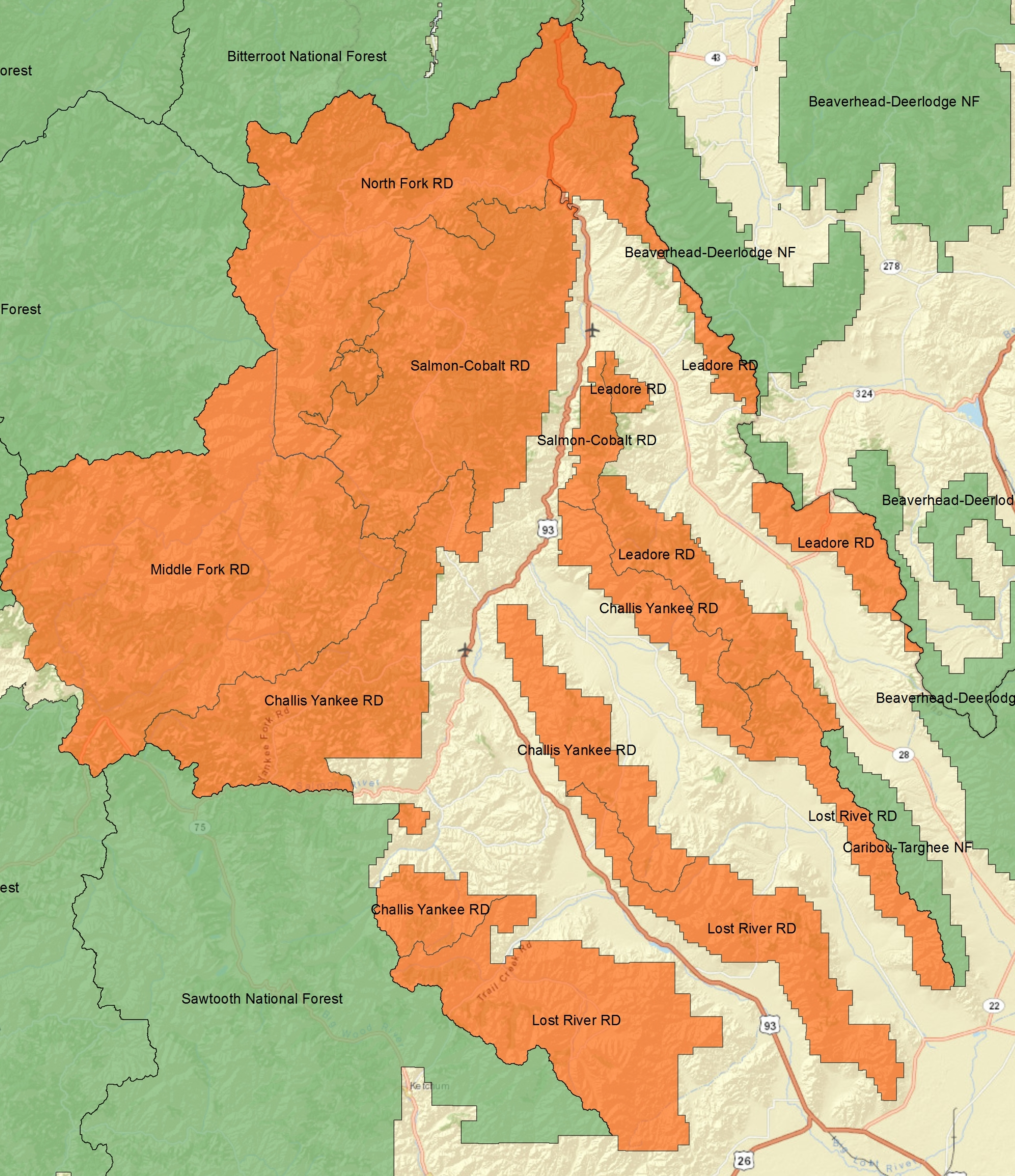 A map of Salmon-Challis National Forest in Idaho. The Challis Yankee, Leadore, Lost River, Middle Fork, North Fork, and Salmon-Cobalt Ranger Districts of the forest are in orange. Surrounding national forests, including Beaverhead-Deerlodge, Bitterroot, Boise (label not visible, west of Sawtooth), Caribou-Targhee, Payette (label not visible north of MIddle Fork RD), and Sawtooth are in green. This map was made using ARCMAP 10.1, and all data are in the public domain. Forest Service boundary data are from the US Forest Service FSGeodata Clearinghouse